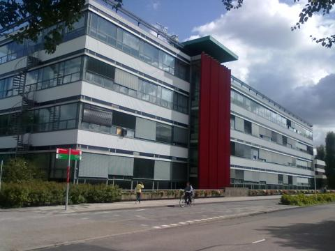 Physical engineering laboratories of the University of Groningen (Technich Fysisch Laboratorium - TFL)